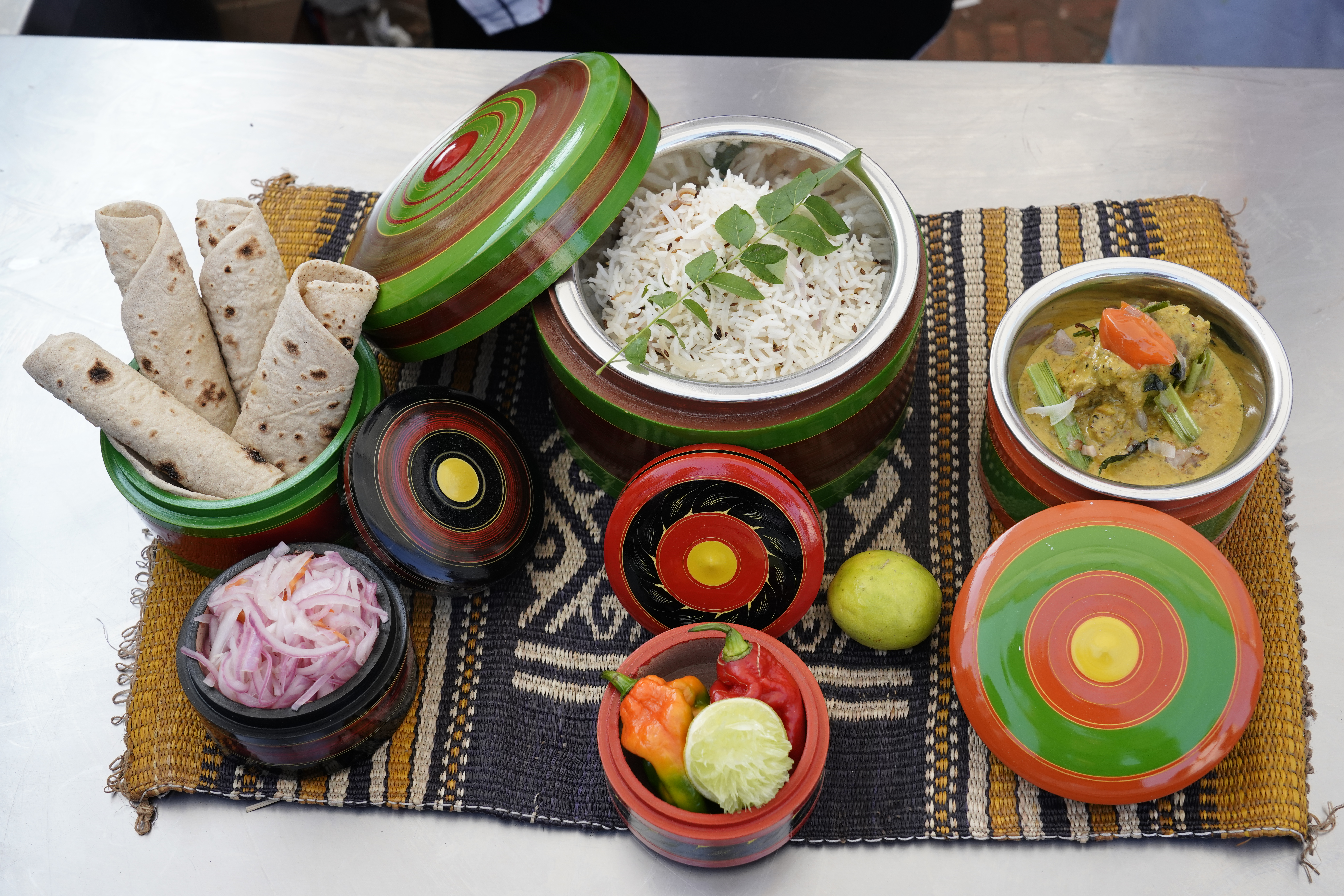 hefs from Maldives preparing Kandu Kukulhu at World Heritage Cuisine Summit & Food Festival 2018